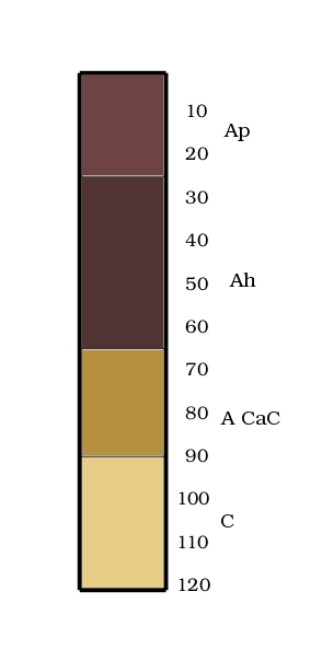 Diagram of a chernozem-profile (black earth). Continental climate. Precipitation: 300-500 mm. Vegetation: Steppe Ap=Clay very rich in humus Ah=Clay with humus A CaC=Clay with a little humus C=Loess